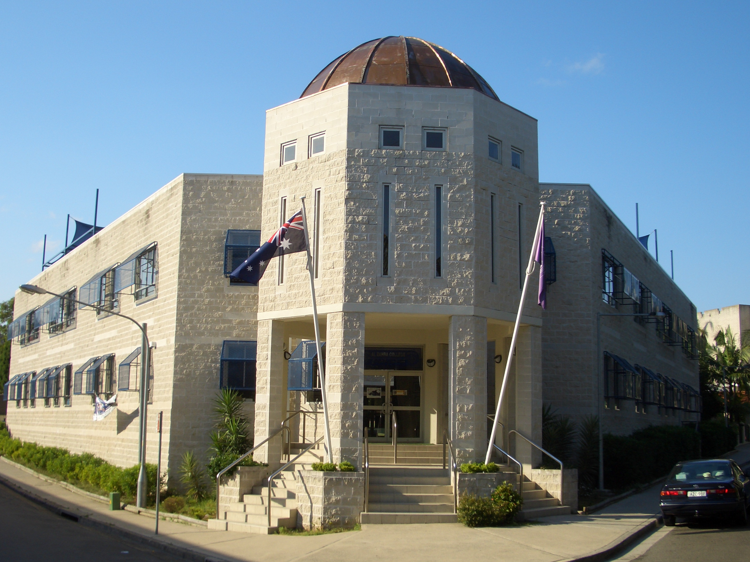 Arncliffe Al-Zahra Private School